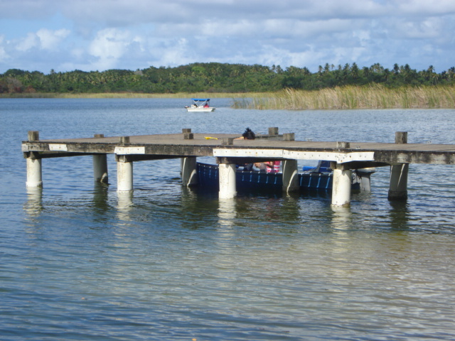 me